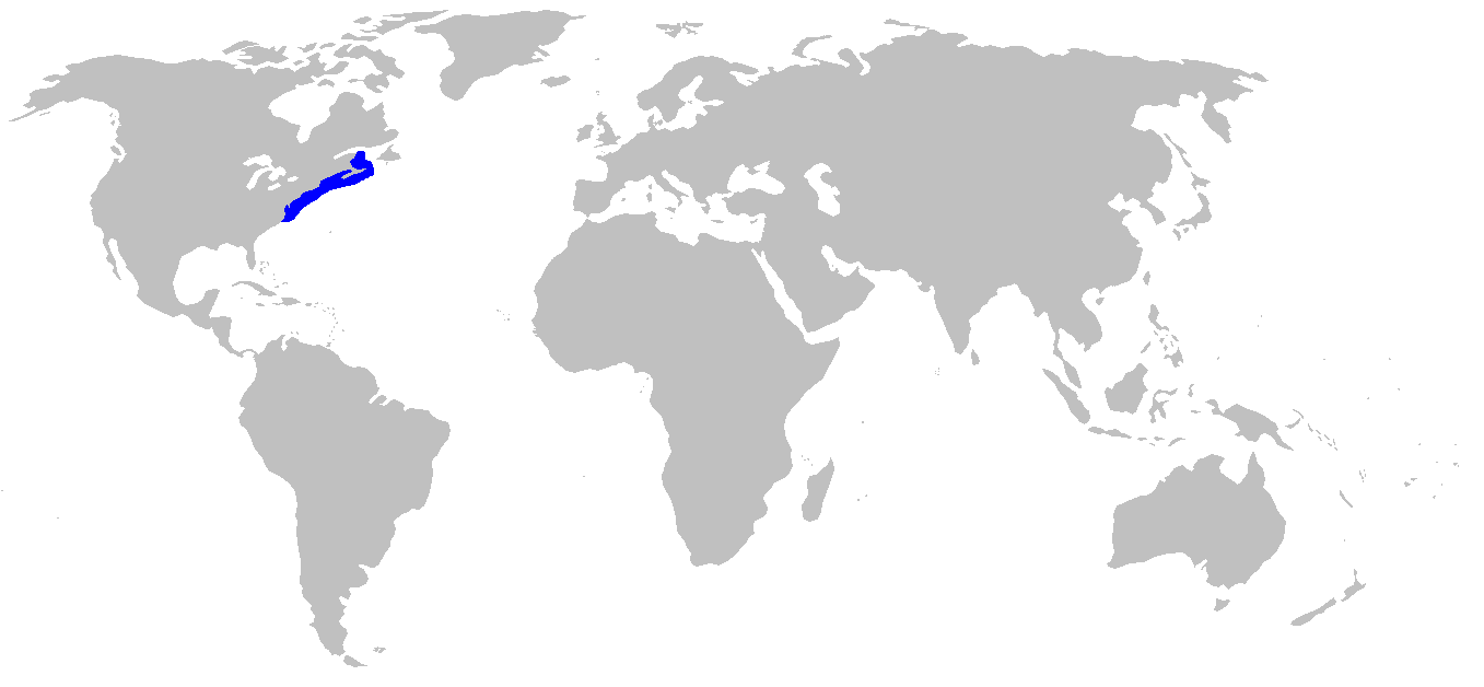 Range of the little skate (Leucoraja erinacea), based on [1].